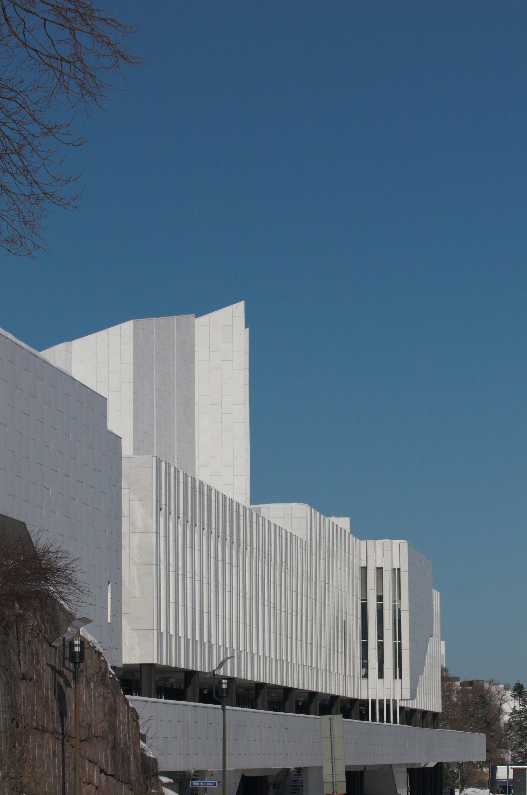 Finlandia Hall in Helsinki, Finland